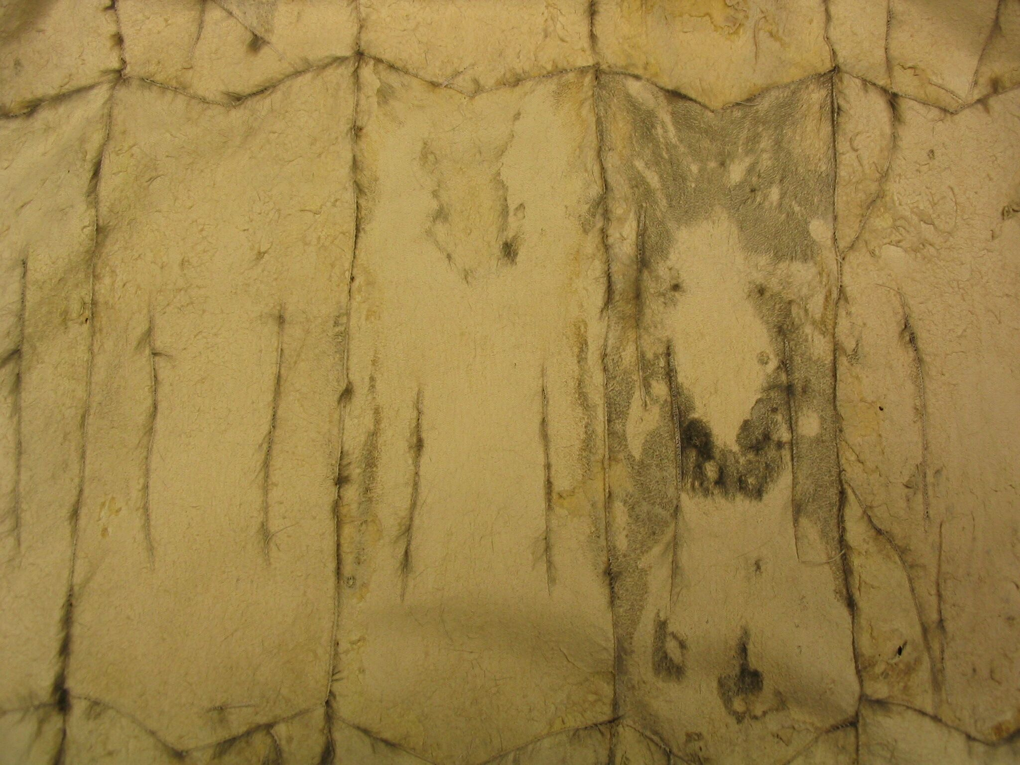 Hamster lining (leather side, cutting)